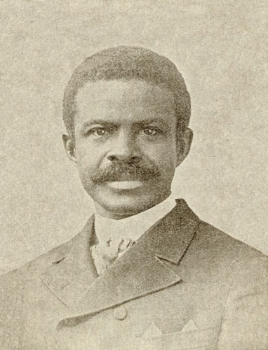 Thomas McCants Stewart (December 28, 1853 – January 7, 1923) was an African American clergyman, lawyer and civil rights leader.